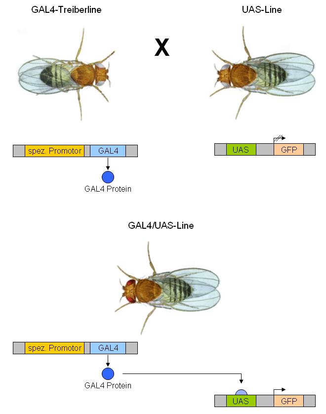 Schematic structure of a Gal4/UAS system; Expression of GAL4 under a particular promoter will result in activation of any genes (e.g., GFP) by binding to the UAS sequence.